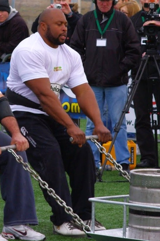 Mark Felix - a strength athlete from Grenada & England at the Carry & Drag.